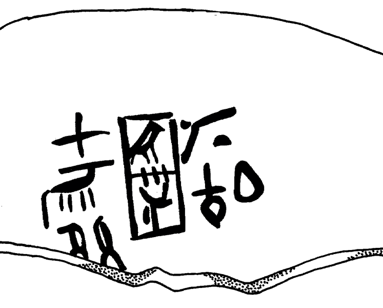 Serekh of Horus Sa, redrawn from a vessel fragment described in Lacau-Lauer, Pyramide a Degrees, 5.Bd., Abb.7